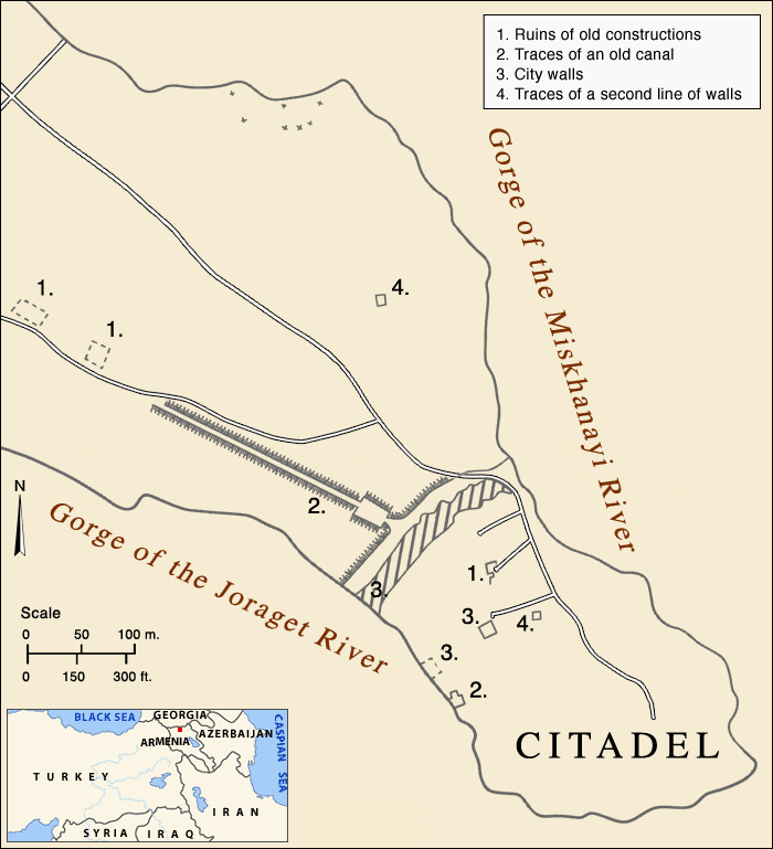 The city of Lori and its citadel, Loribert.